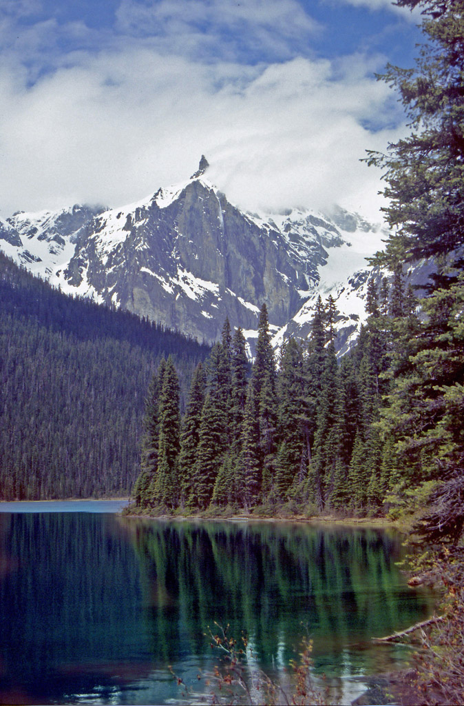 Emerald Lake in Yoho National Park, Canada